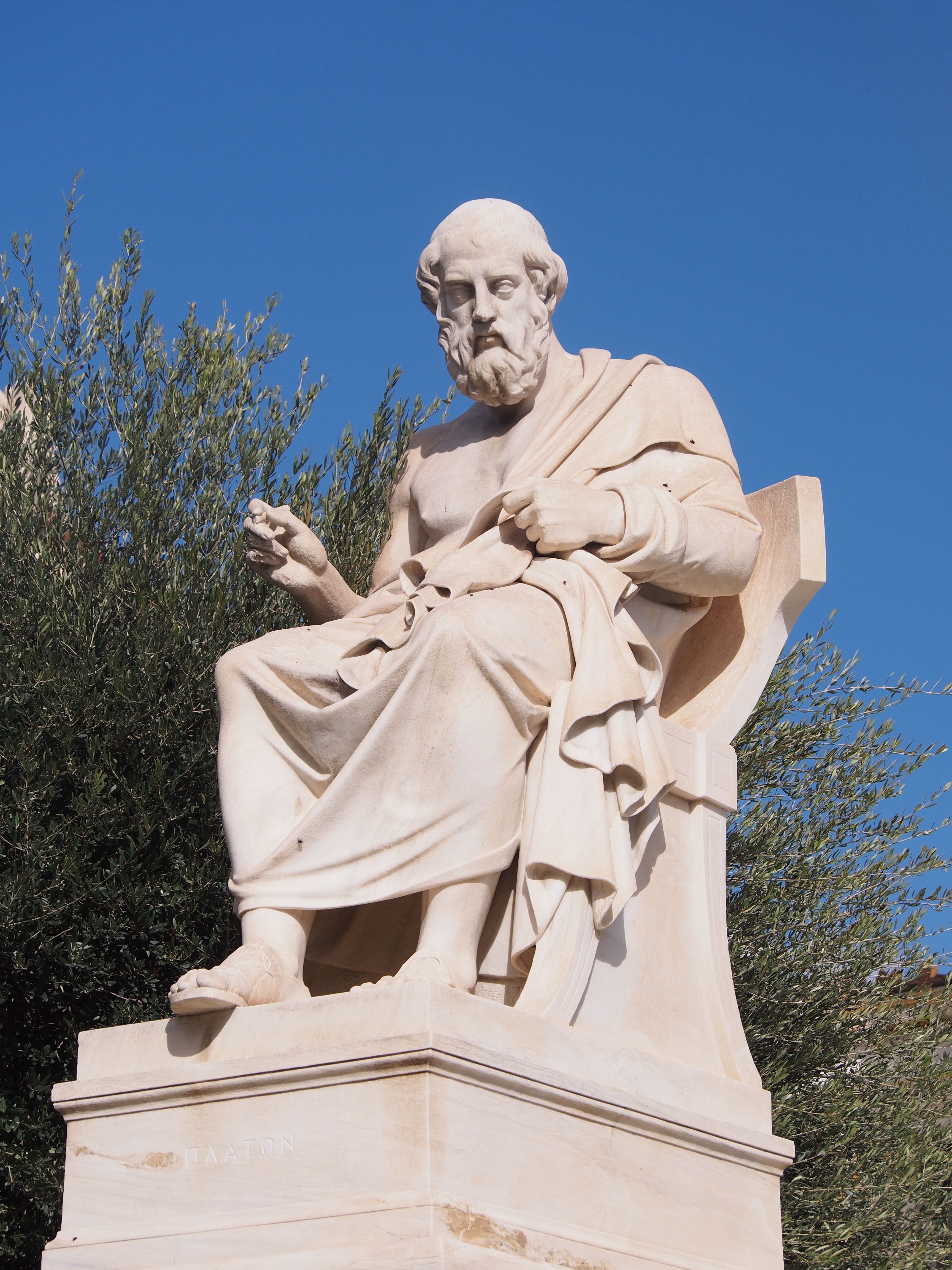 The statue of Plato in front of the Academy of Athens. Original Work od Leonidas Drosis (d. 1880)